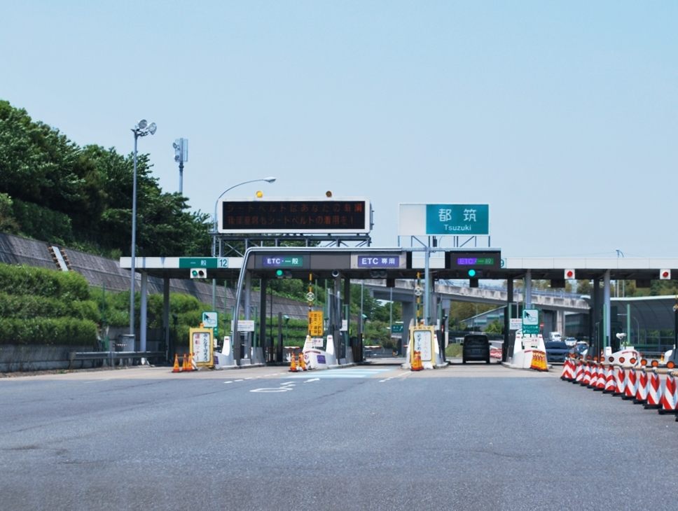 Tsuzuki Interchange on Dai-san Keihin